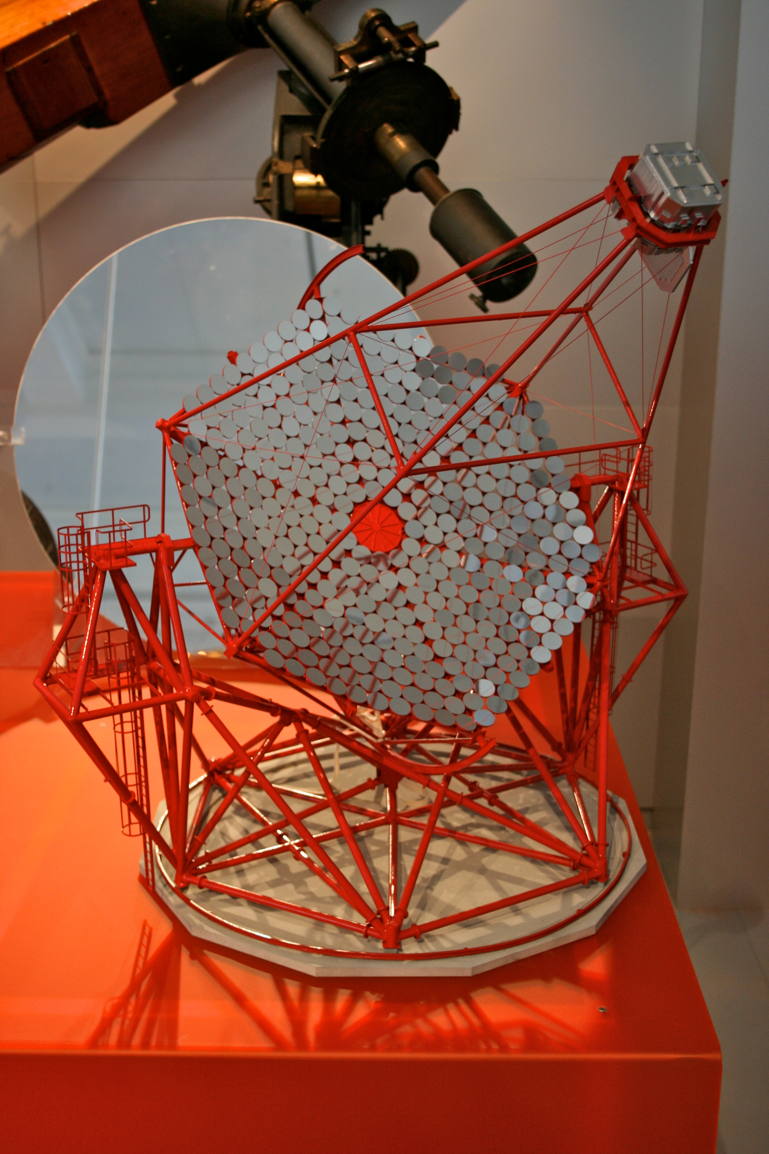 A 1/30 scale model of the High Energy Stereoscopic System on display in the Science Museum, London.